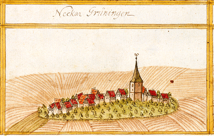 View of Neckargröningen, Remseck am Neckar, from the forest register books created by Andreas Kieser